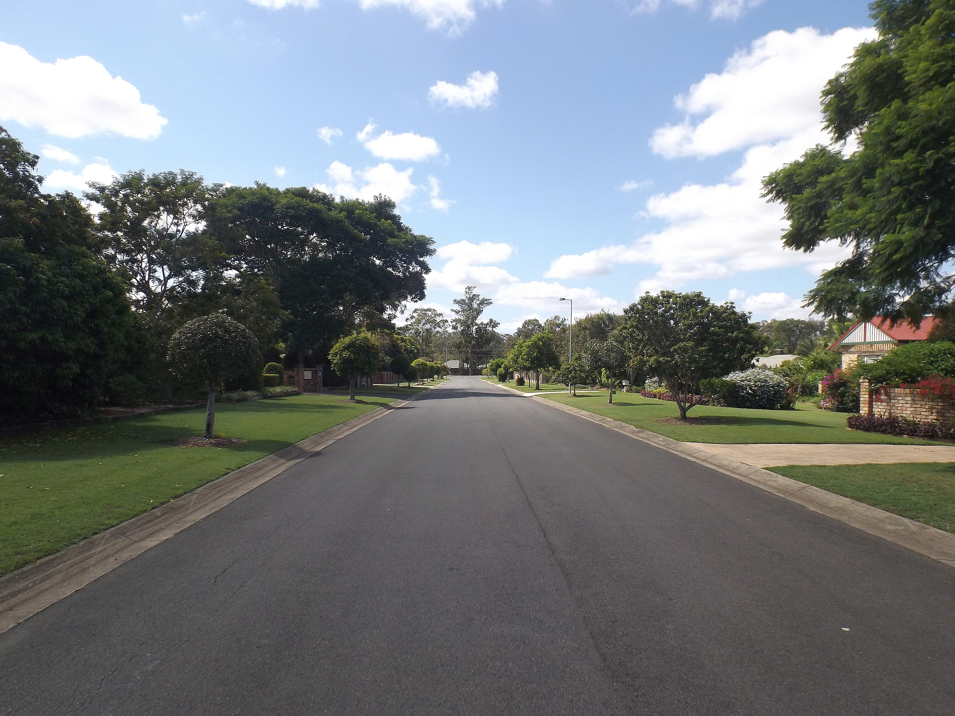 Photo of Stubbin Street in in Belivah, City of Logan, Queensland, Australia.